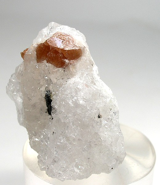 Stillwellite-(Ce) Locality: Darai-Pioz (Dara-i-Pioz; Dara-Pioz) Glacier, Alai (Alayskiy) Range, Tien Shan Mts, Region of Republican Subordination, Tajikistan (Locality at ) This is one of the better crystals collected in a remakrable pocket from a glacial region, in september of 2004. It features a 1.3 cm crystal in matrix. Interestingly, they COLOR CHANGE from red (as shown) in halogen or sunlight to YELLOW in fluorescent light. Superb crystal form and lustre for the species, as well as unusually attractive for such a normally earthy species. They are translucent and partly gemmy, if not transparent per se. 4 x 2.3 x 2.1 cm